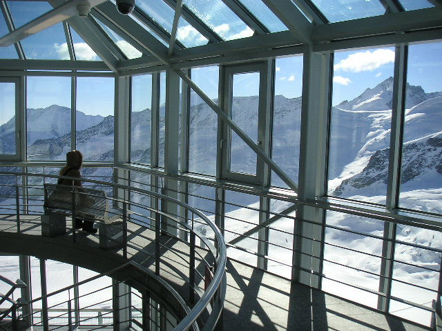 Inside the Jungfraujoch building, above the Aletsch Glacier